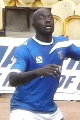 Patrick Agyemang. Image cropped from original at flickr.